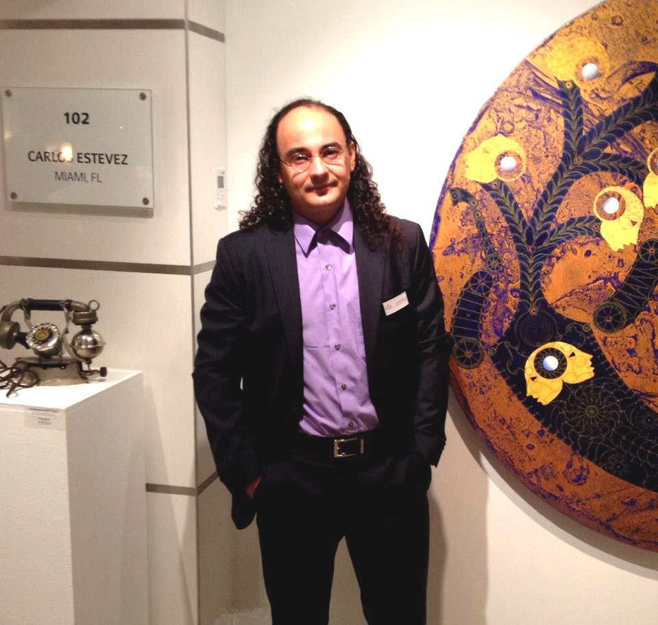 Photo by Martin Parker